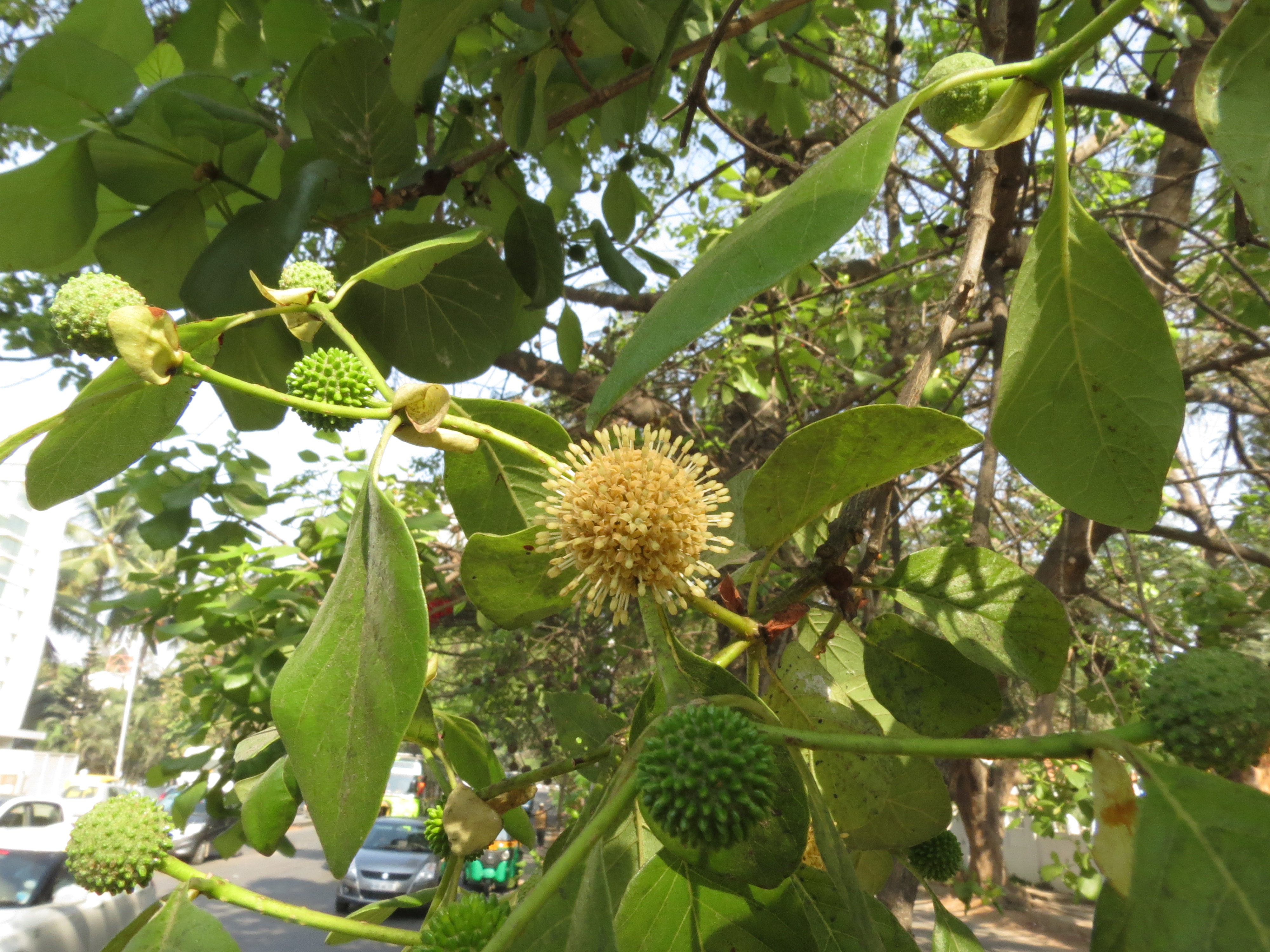 Mitragyna parvifolia seen as lane trees in Bengaluru in between Krupanidhi college Koramangala and Koramangala water tank bus stop.